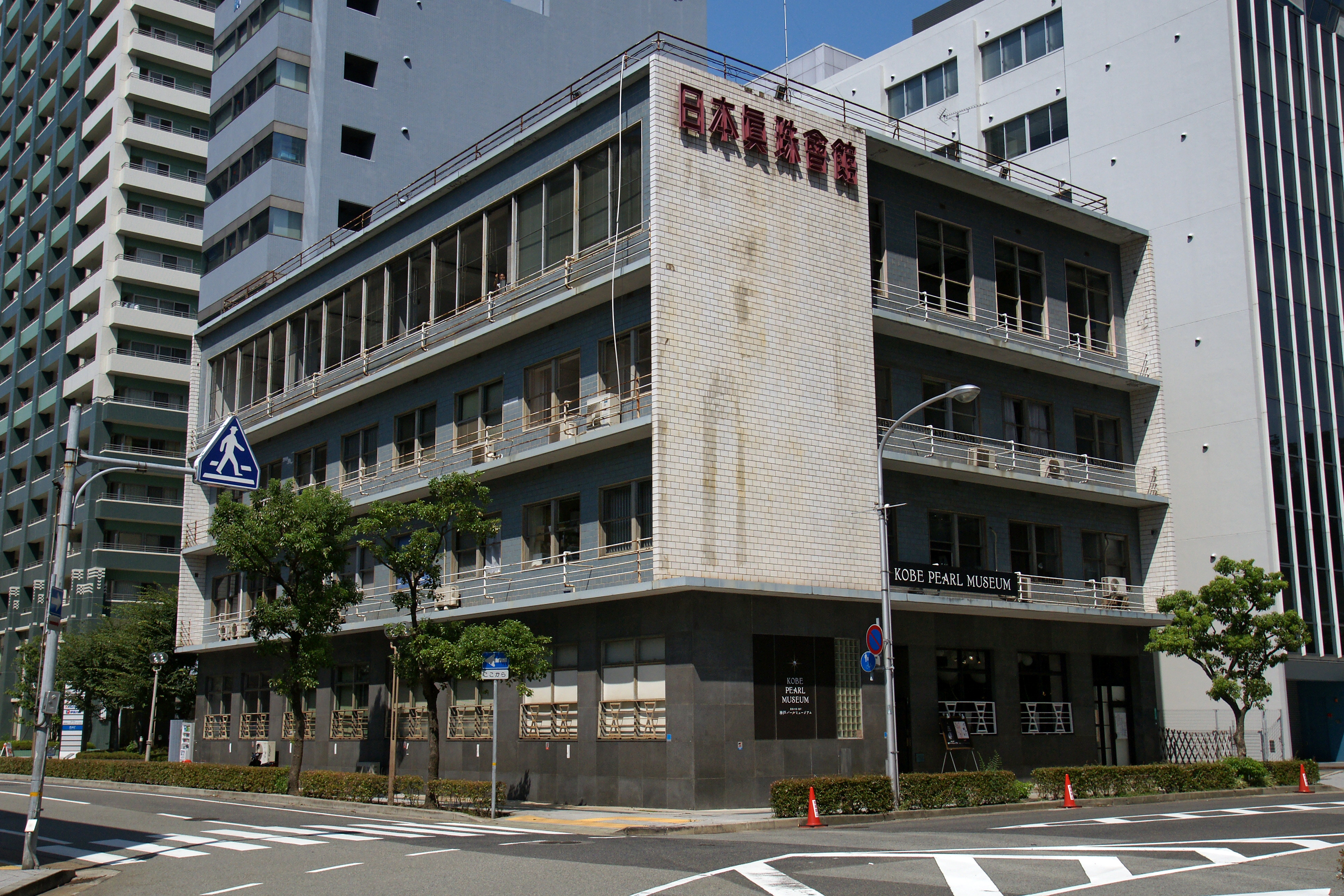 Nihon-shinju-kaikan (Kobe Pearl Museum), Kobe, Hyogo prefecture, Japan